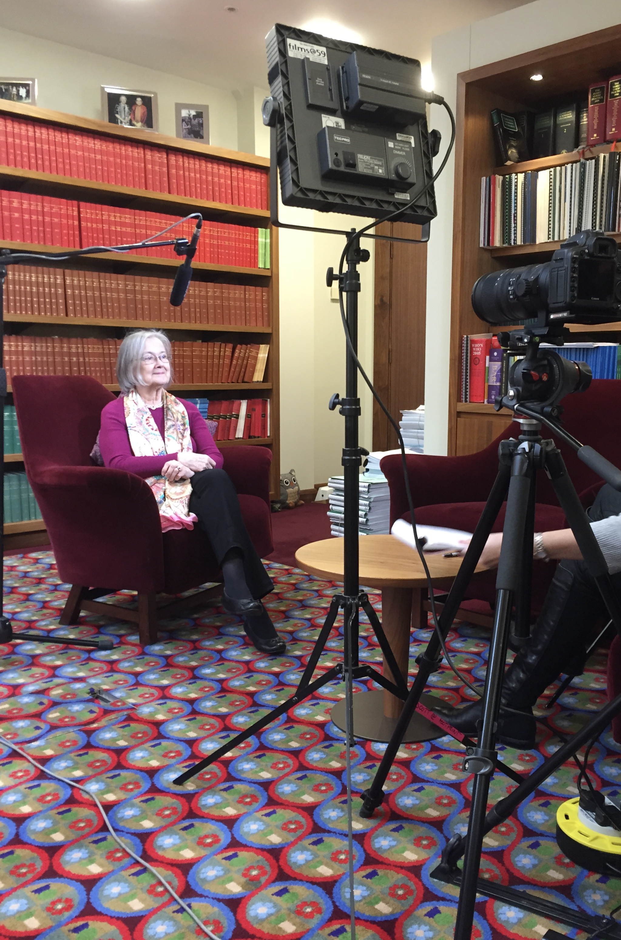 Baroness Hale during the First 100 Years interview in February 2016.